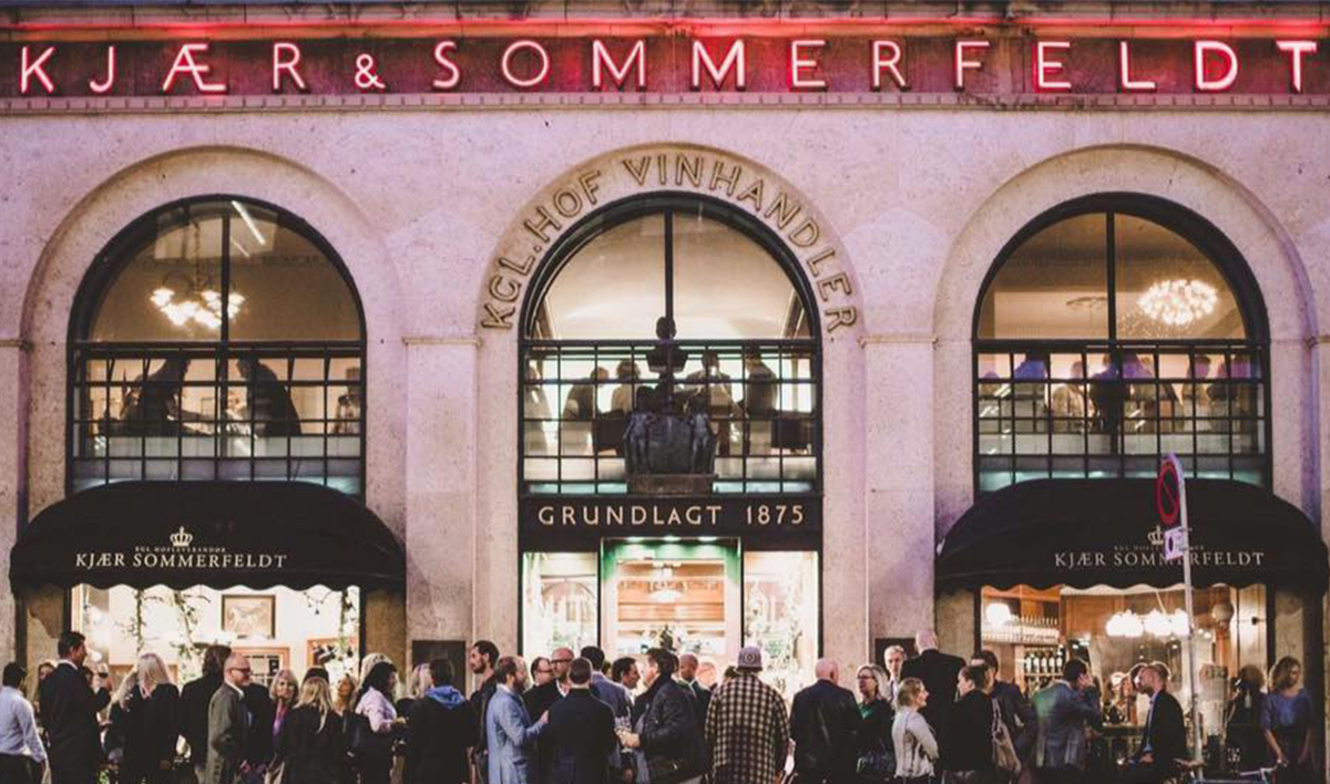 The front side of Kjær & Sommerfeldt